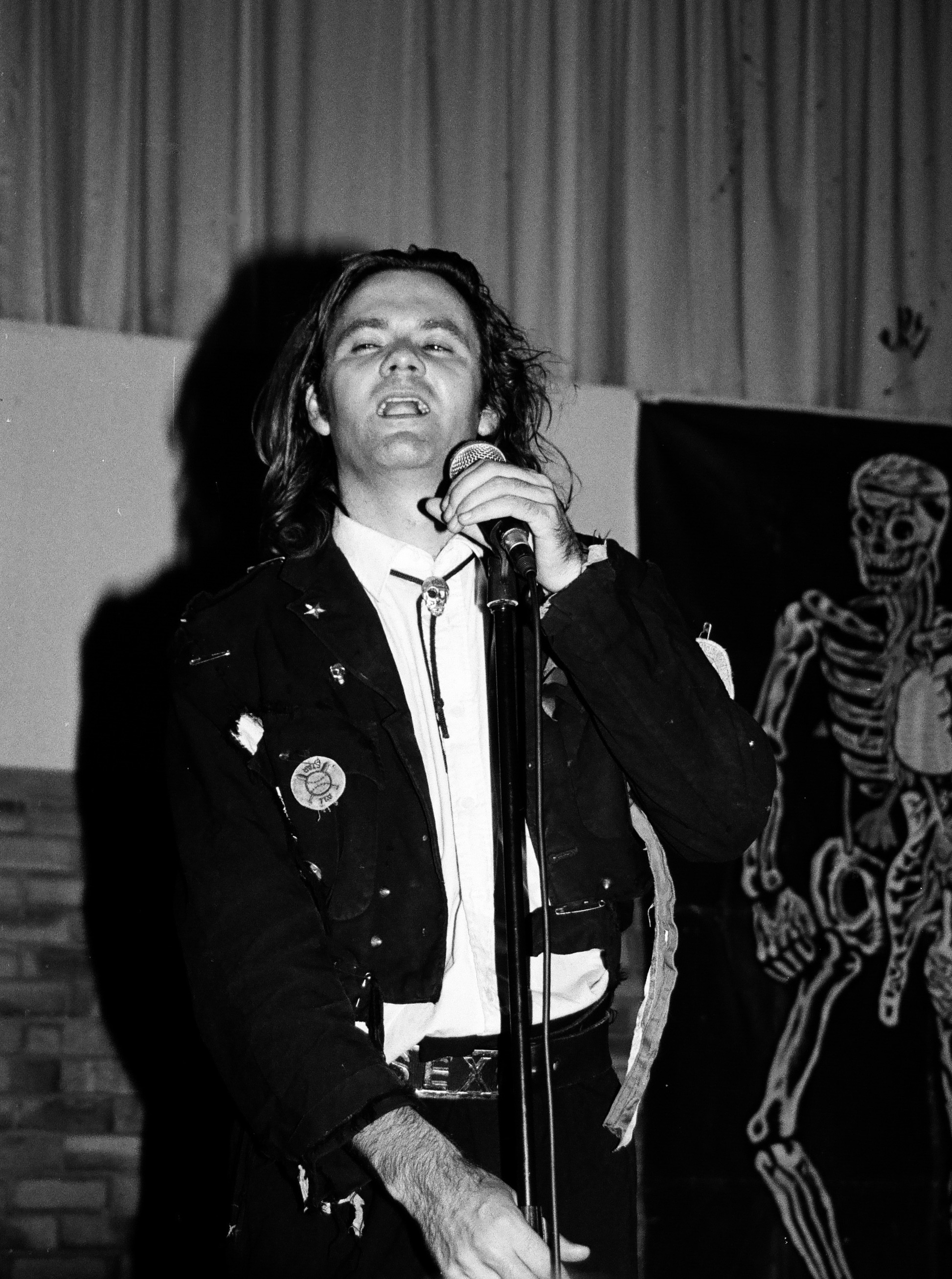 Comedian and singer Paul McDermott on stage with the Doug Anthony All Stars in April 1994.